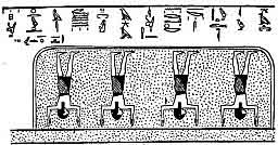 (See Ch. 11 of the Book of the Am-tuat at .)